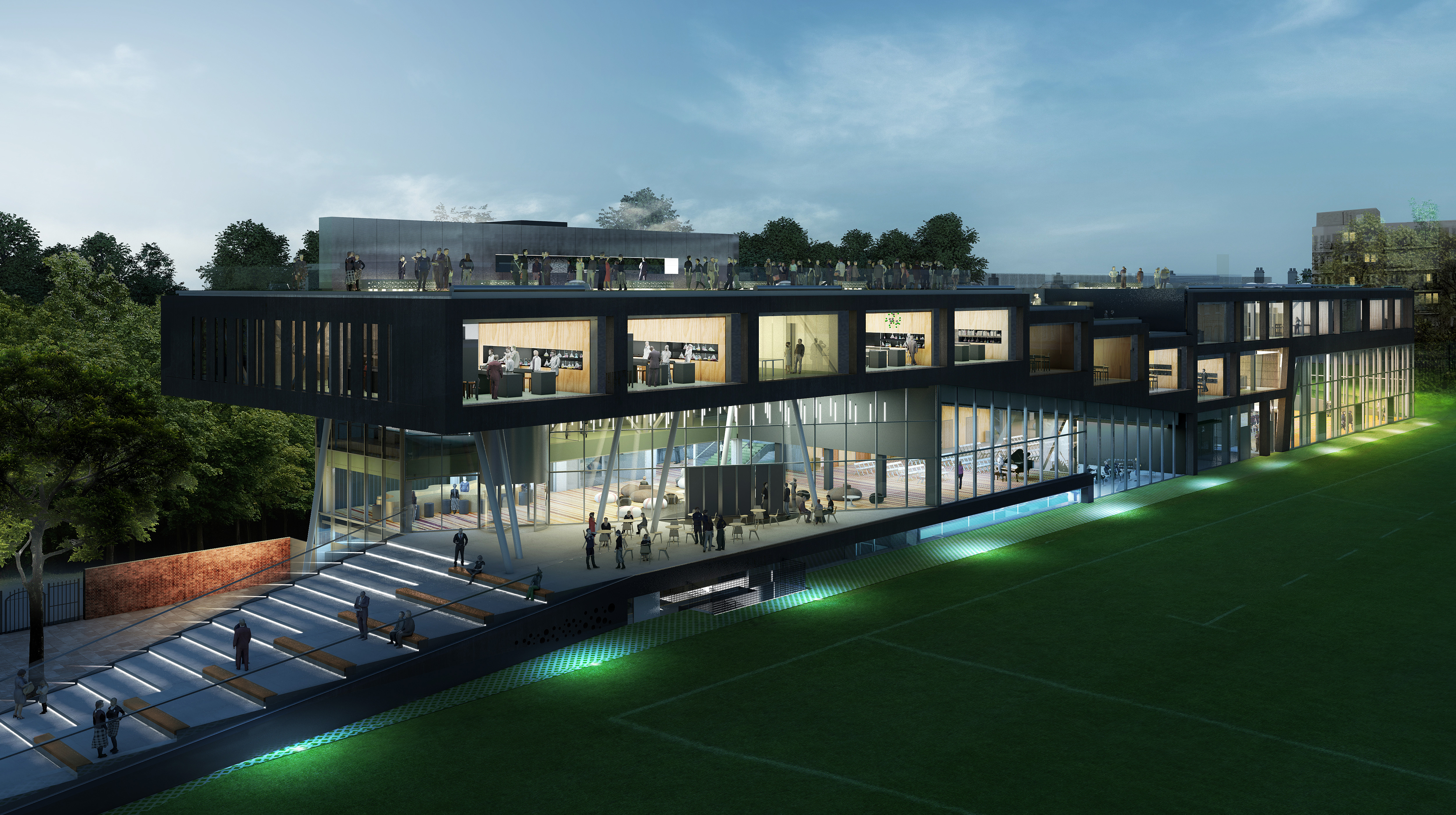 Brighton College Sports and Science Centre opening 2019